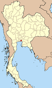 Map of Thailand highlighting the proposed Nakhon Suvarnabhumi province